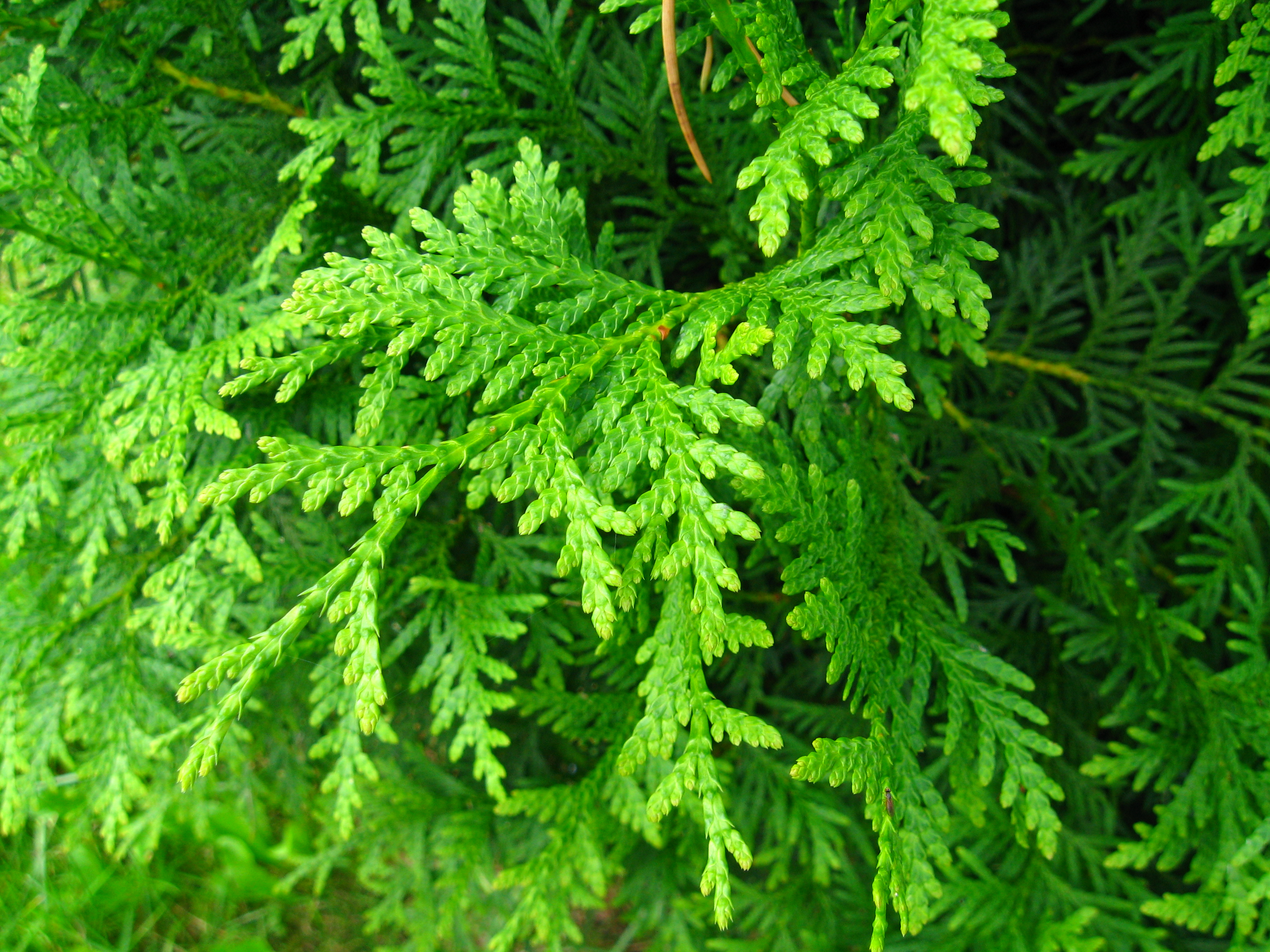 Northern Whitecedar var. Brabant (Thuja occidentalis 'Brabant')